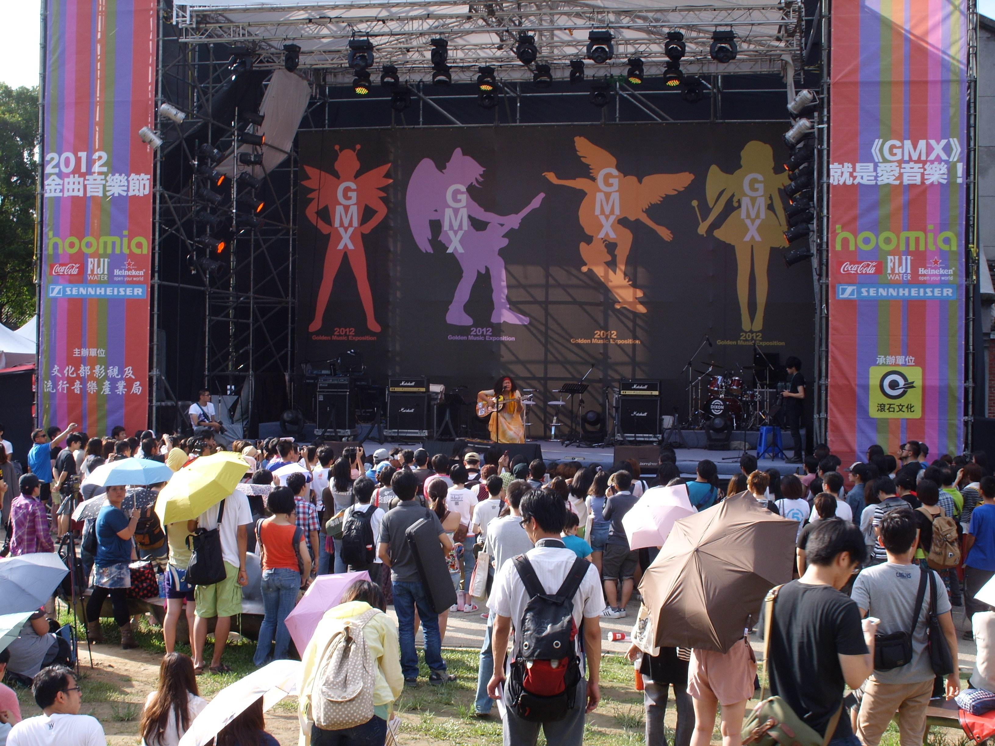 2012 Golden Music Exposition: Outdoor Major Stage Concert.